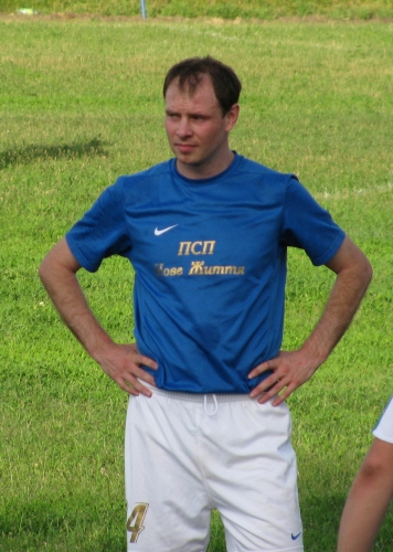 Oleksandr Melaschenko is a Ukrainian footballer